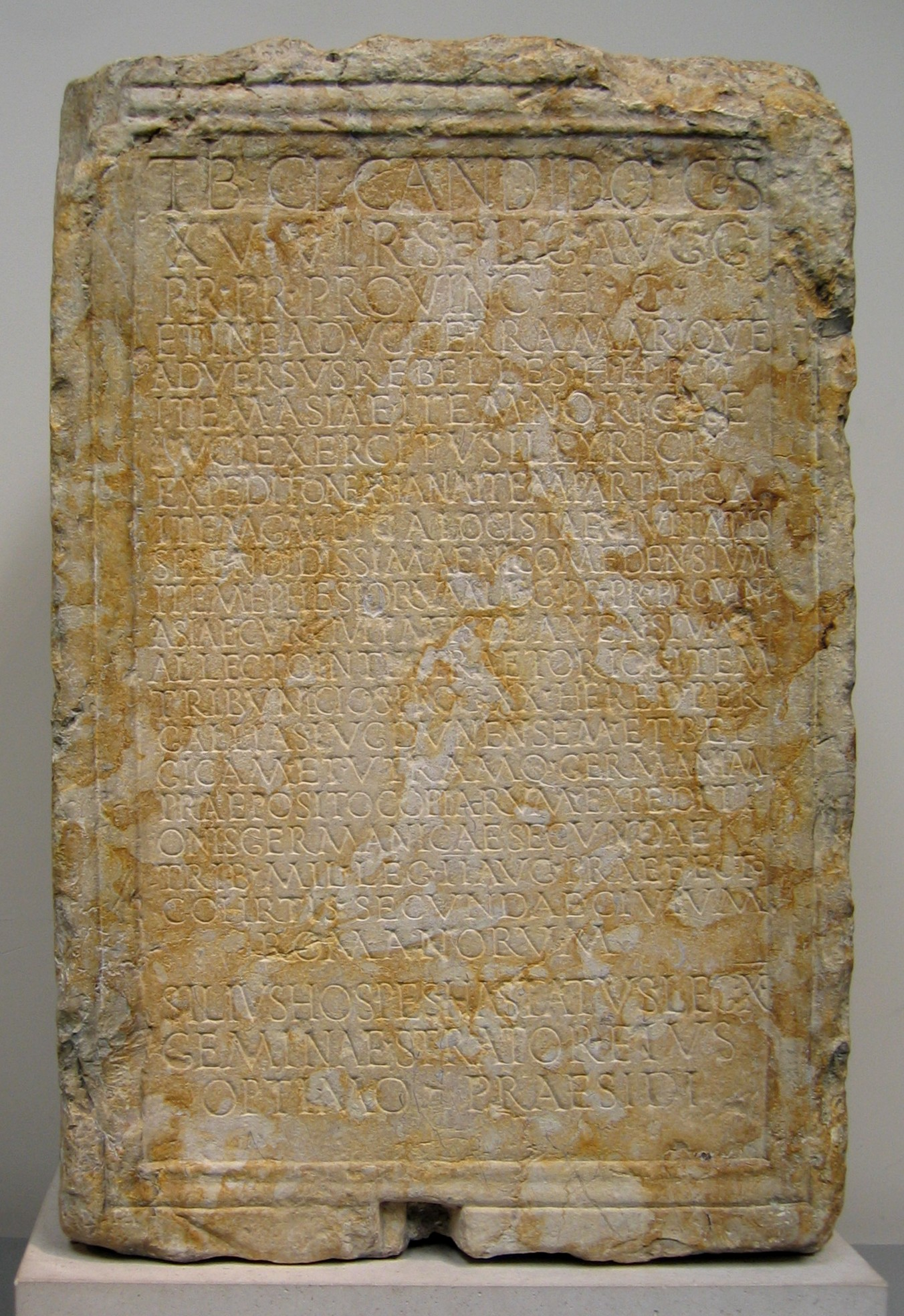 CIL II, 04114 (ILS 1140); RIT, 130. Currently in the British Museum. Cursus honorum of Tiberius Claudius Candidus